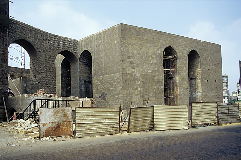 Aqueduct, Old Cairo, Egypt